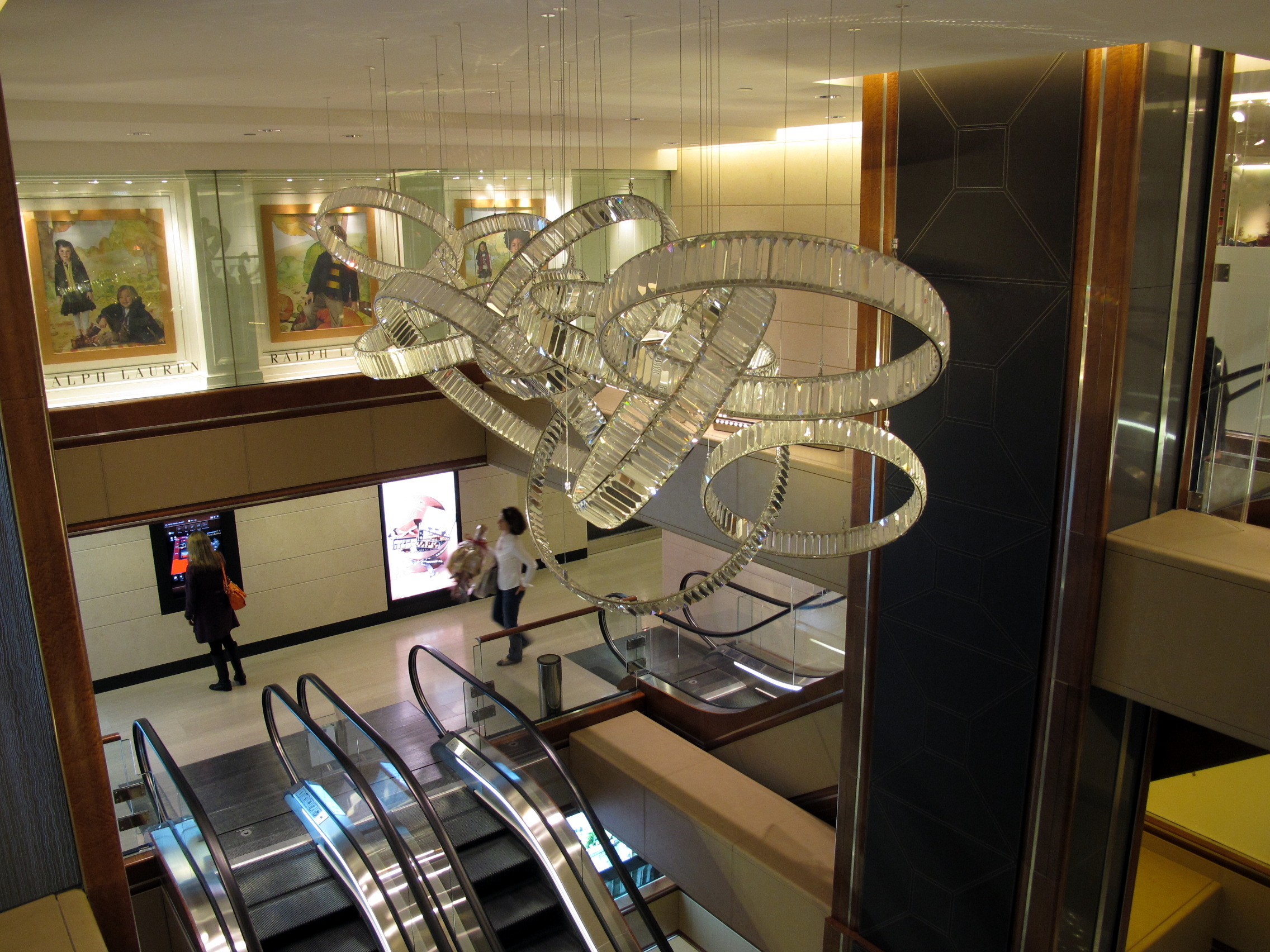 Prince's Building Interior